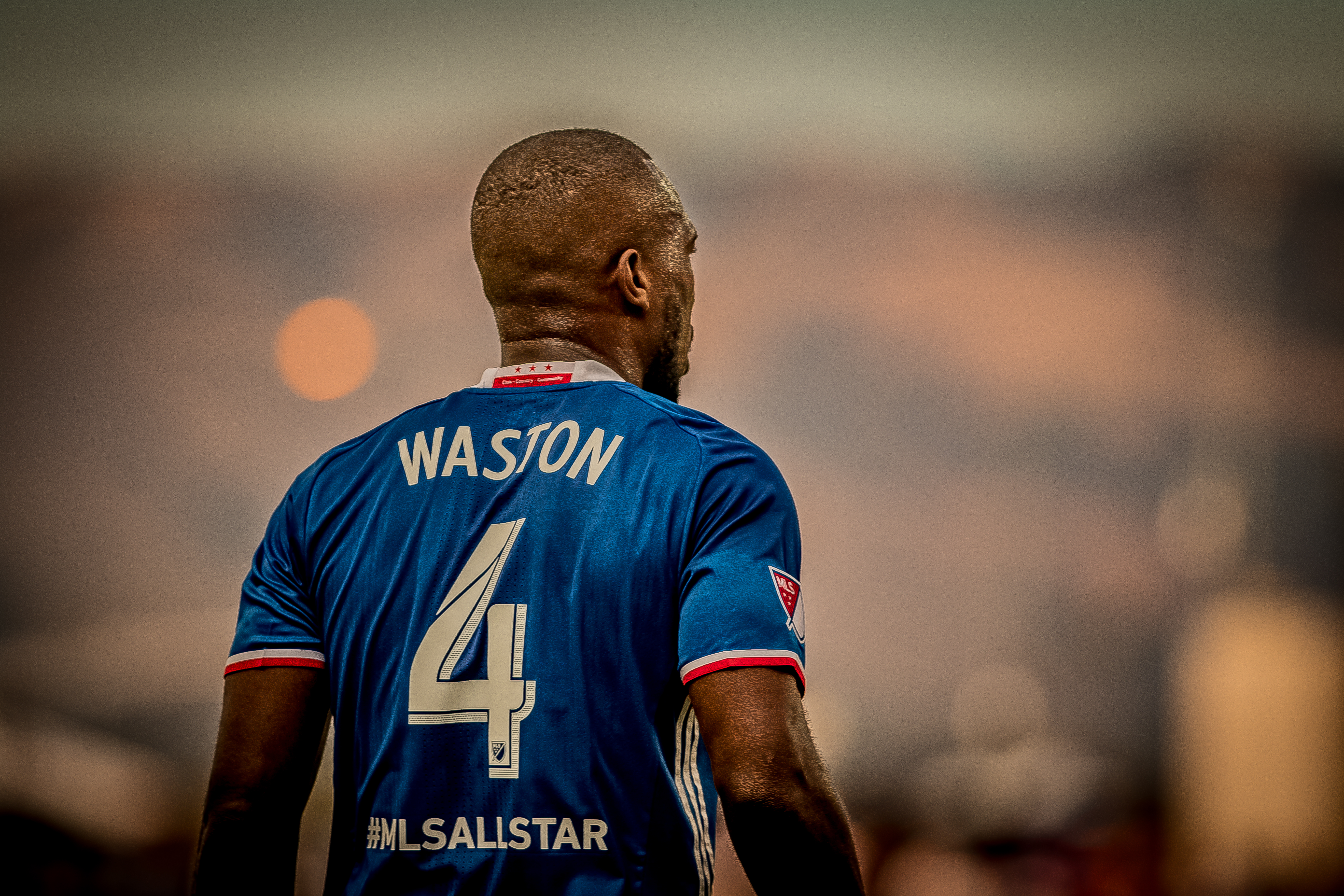 Kendall Waston